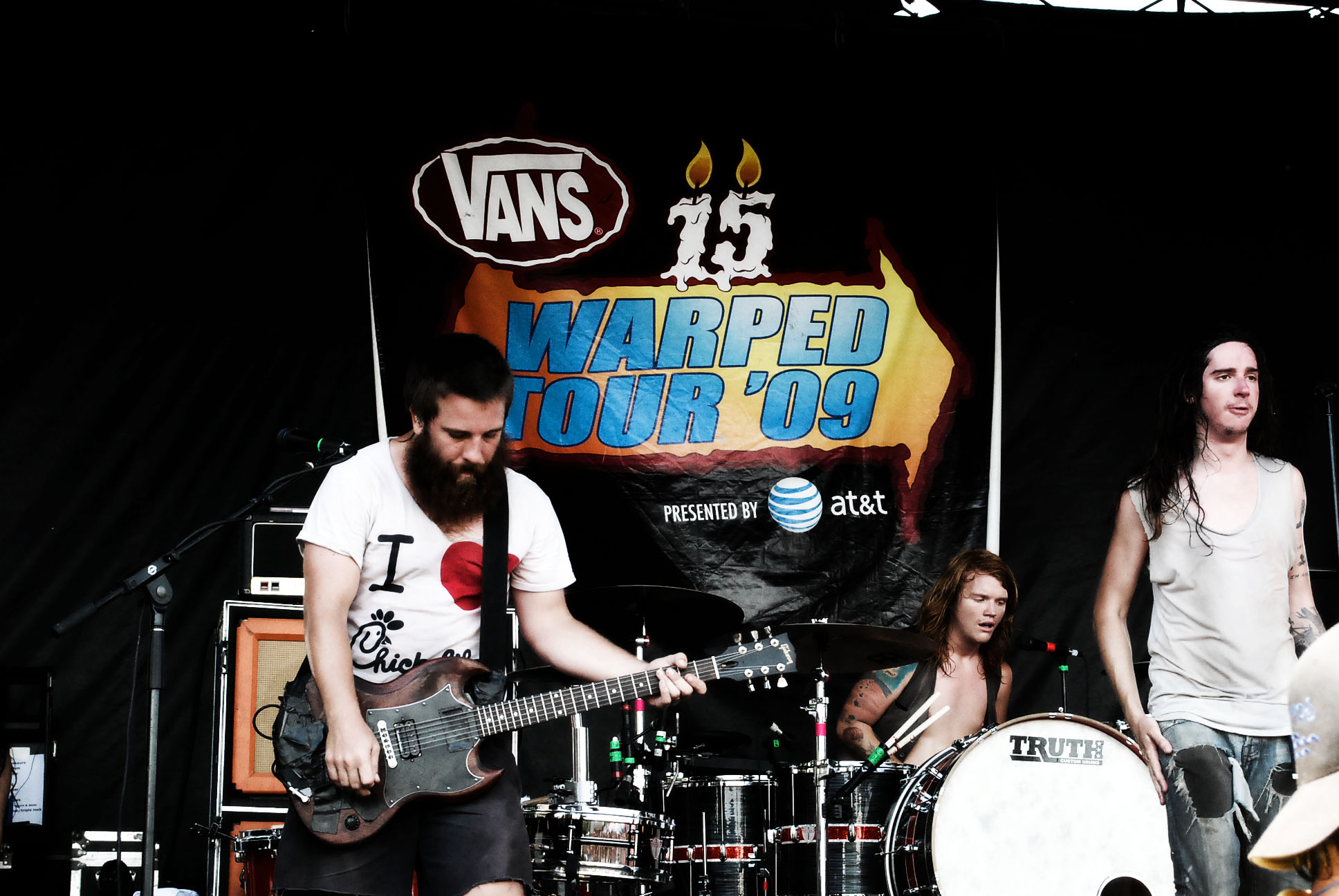 Underoath live at the Vans Warped Tour in 2009.